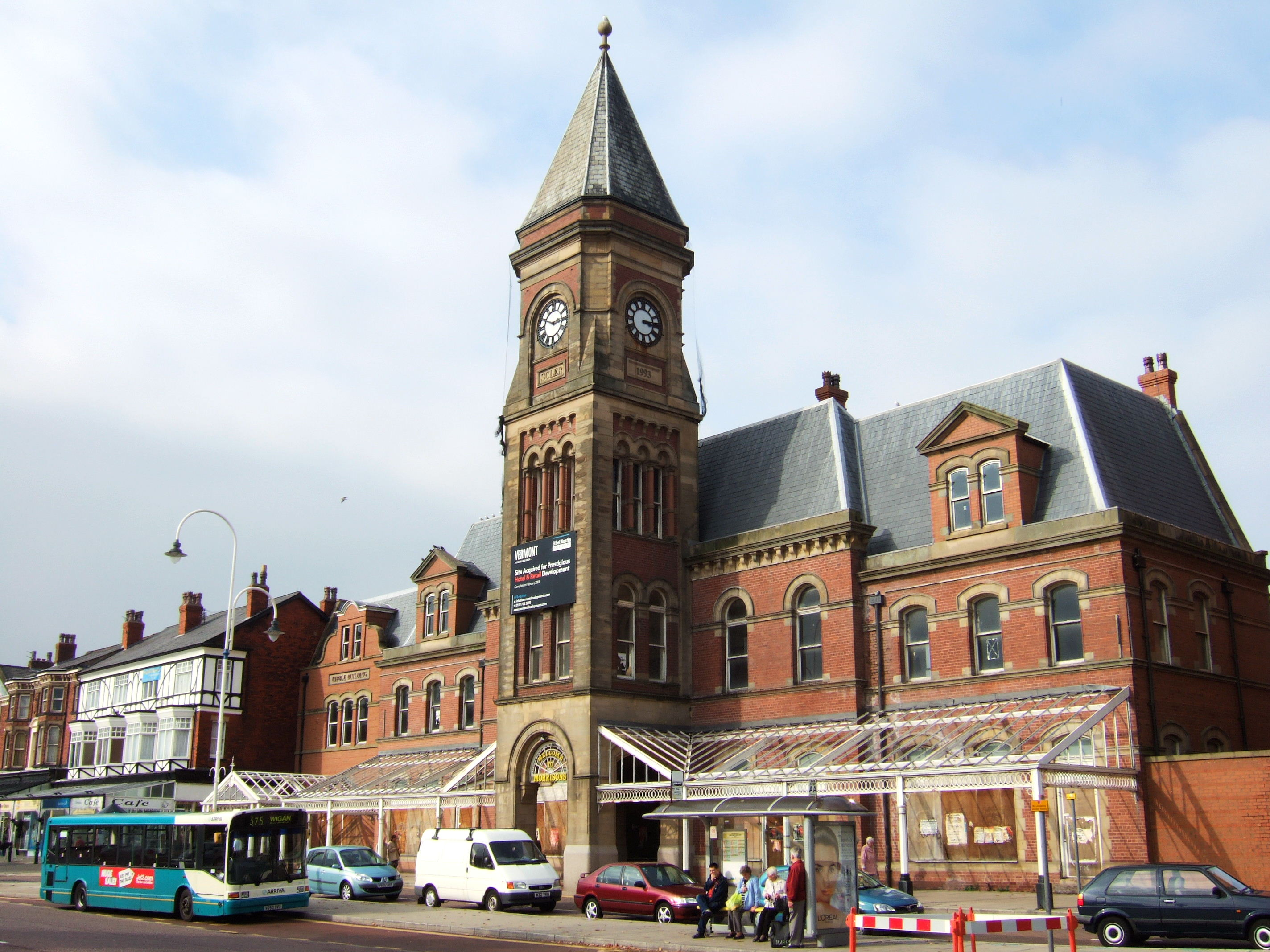 The frontage of Southport Lord Street railway station, now part of a Morrisons supermarket, in Southport, Merseyside, England.